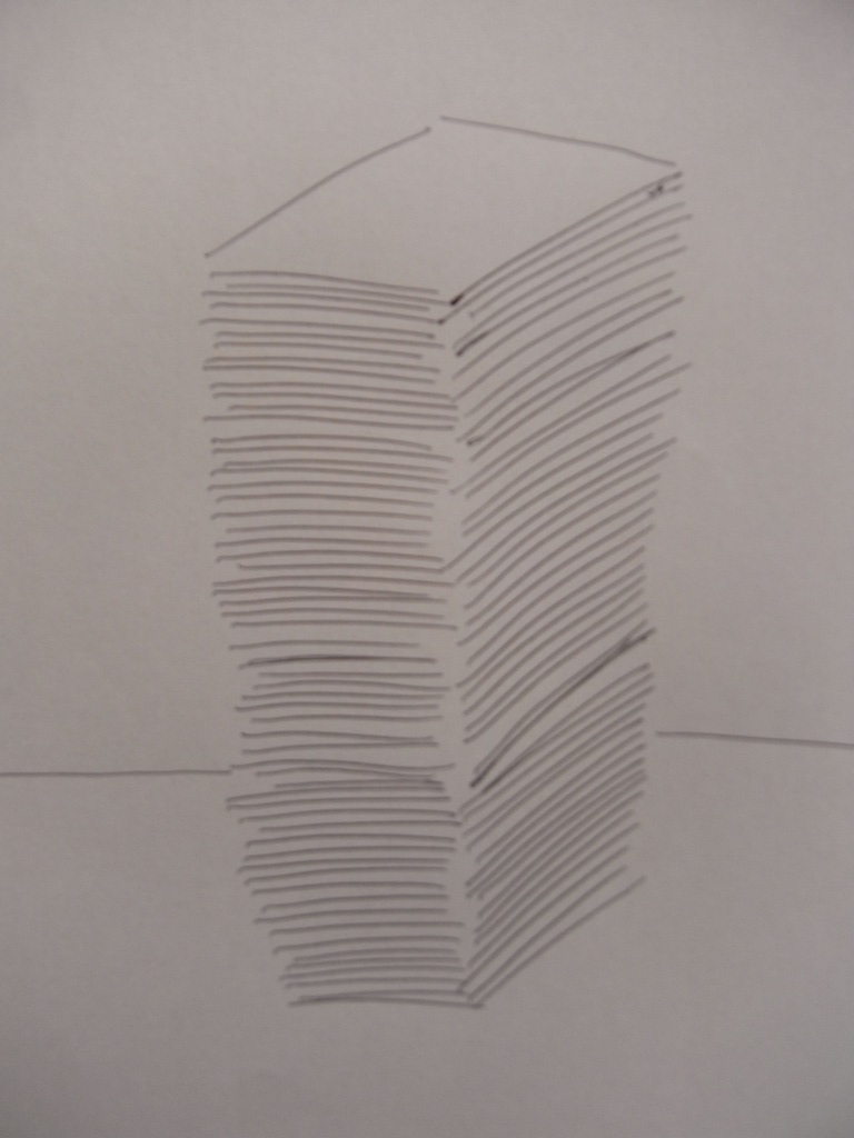 2012年香港立法會拉布攻防戰